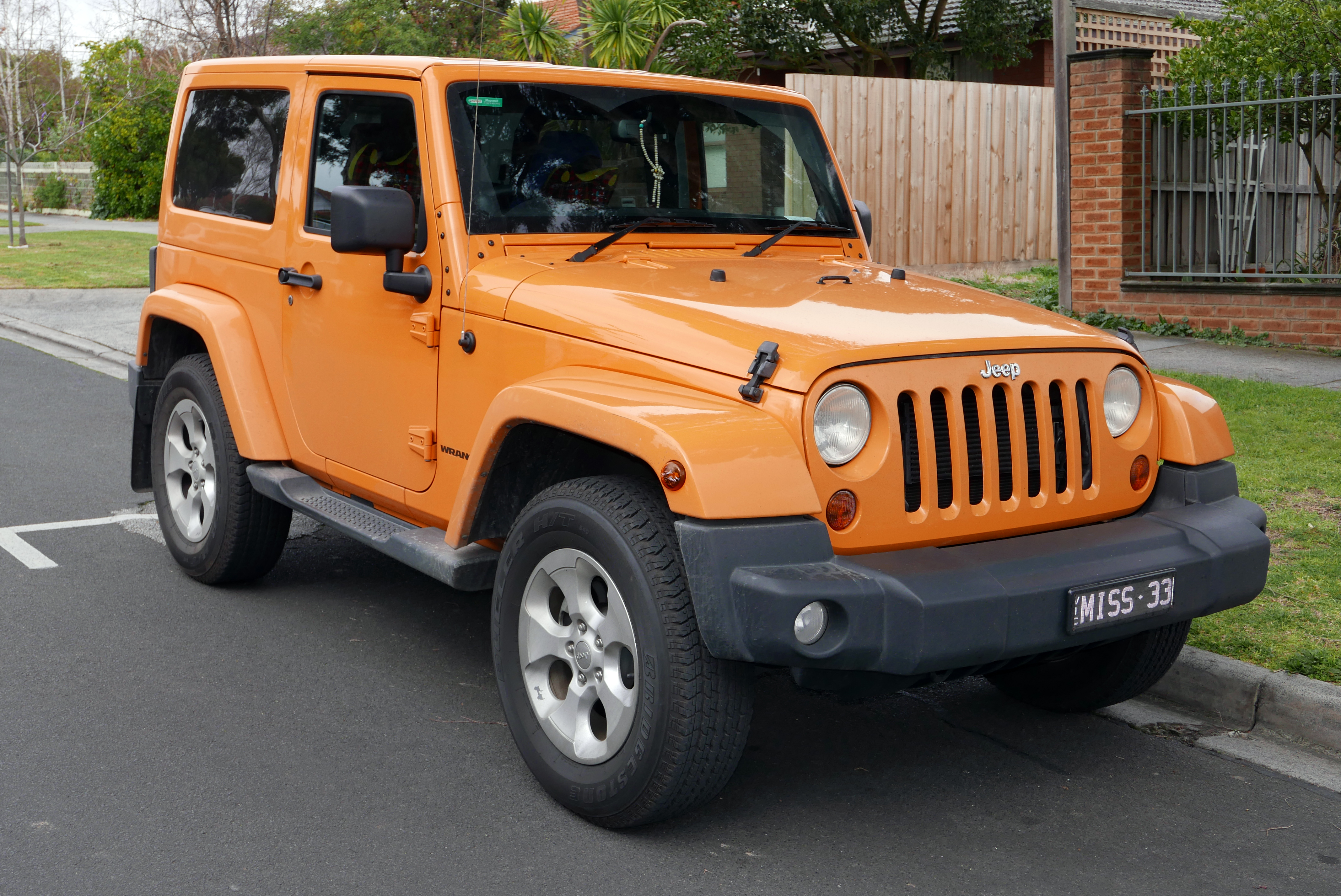 2013 Jeep Wrangler (JK MY13) Overland 3-door hardtop. Photographed in Box Hill North, Victoria, Australia. Vehicle registration enquiry resultsJurisdictionVictoriaRegistrationMISS33Chassis code1C4HJWHG2DL563012Engine codeDL563012Compliance date2013-01Year of manufacture2013